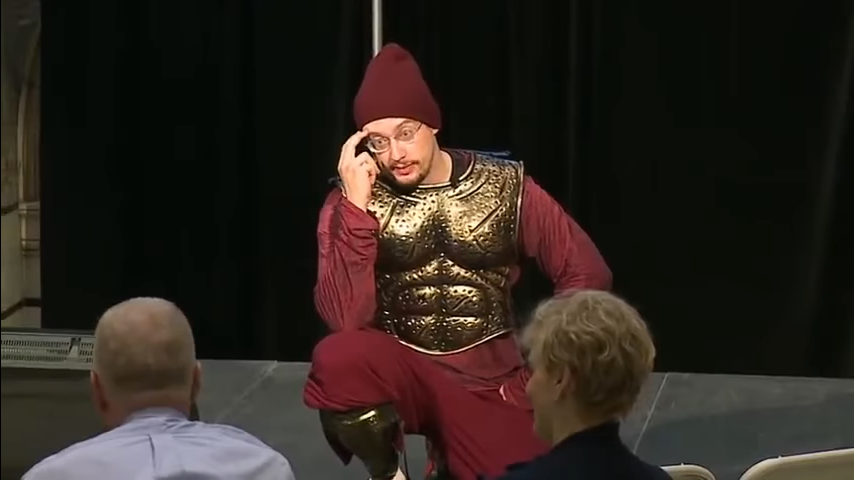 Sam Hyde at a TED talk, as seen in his most well-known video, "Sam Hyde's 2070 Paradigm Shift." The part of the video where the screenshot was taken is at 16:27